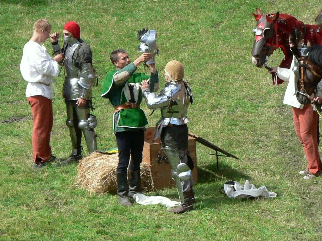 Knights and a squire at the Malbork Castle, a historical reenactment.